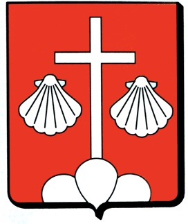 Coat of arms Limat de Saint Barthélemy